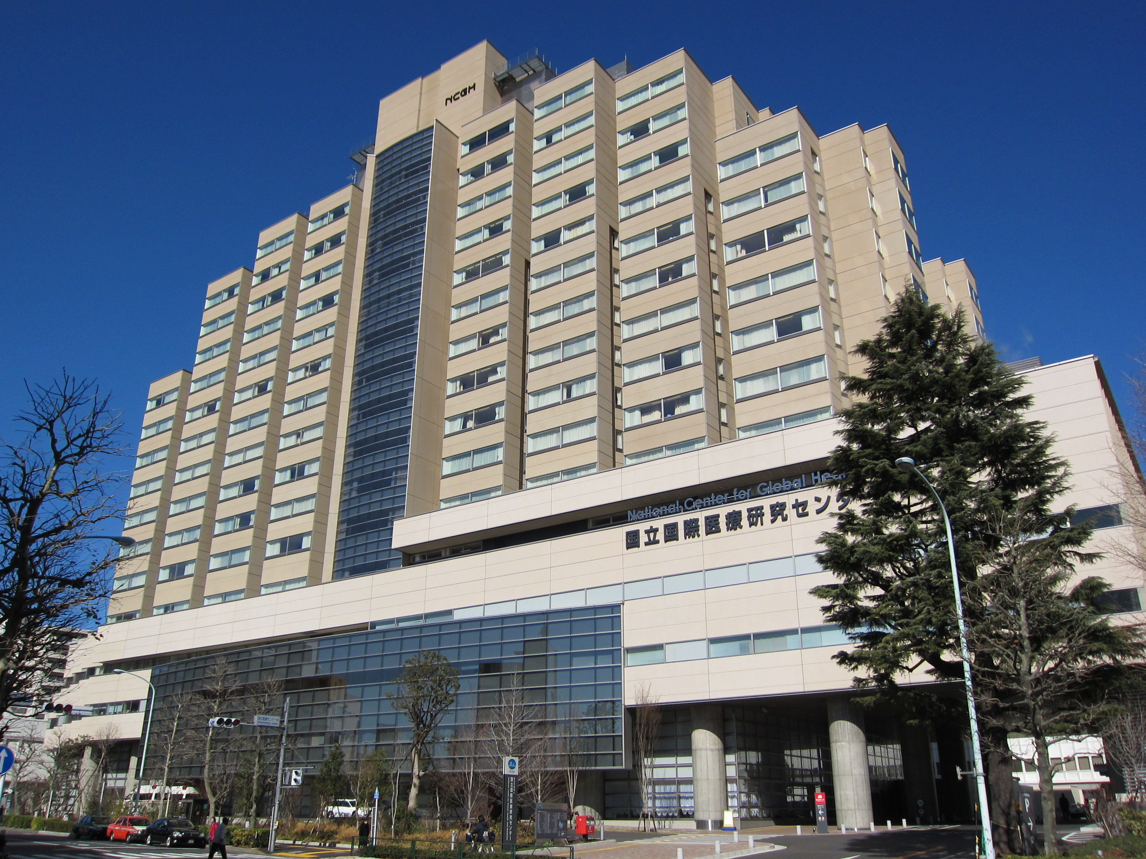 National Center for Global Health and Medicine